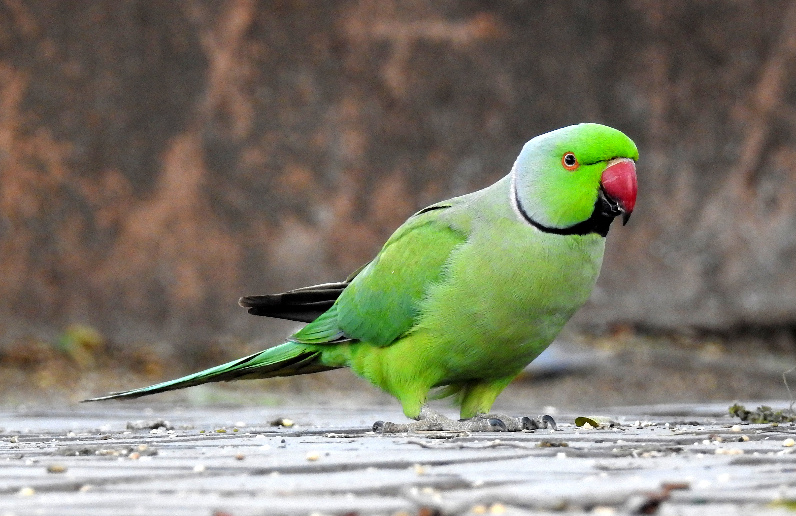 Rose-ringed Parakeet Psittacula krameri male. Photographed by Dr. Raju Kasambe at Lakhota Lake, Jamnagar, Gujarat, India.